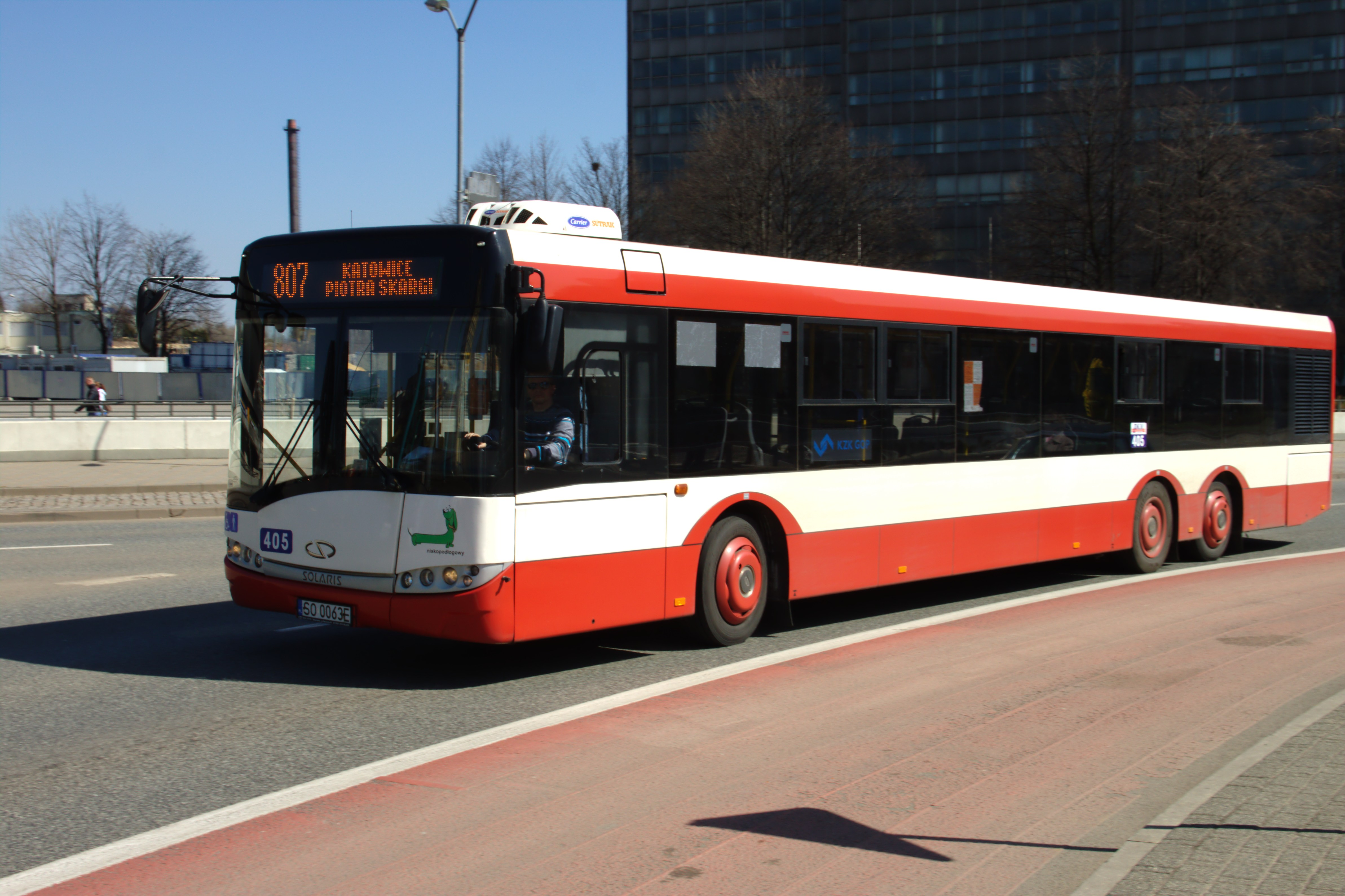 Solaris Urbino 15 bus (#405, reg. SO 0063E) approaching the Rondo Generała Jerzego Ziętka roundabout in Katowice, Poland. Built 2009, PKM Sosnowiec.